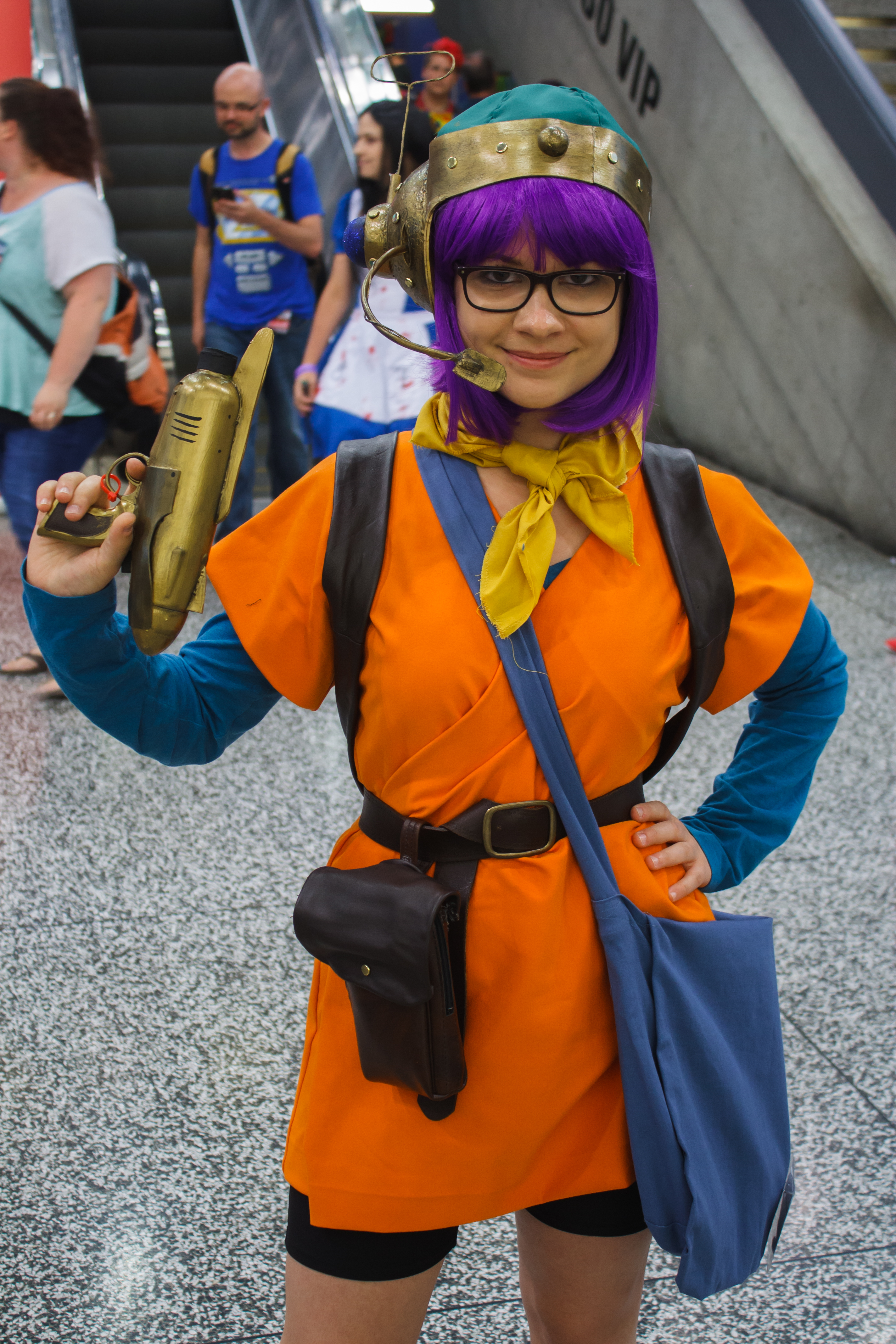 Cosplay on Saturday, day two, of the Montreal Comiccon 2016.